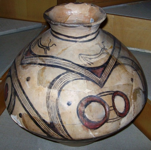 LOGO ???